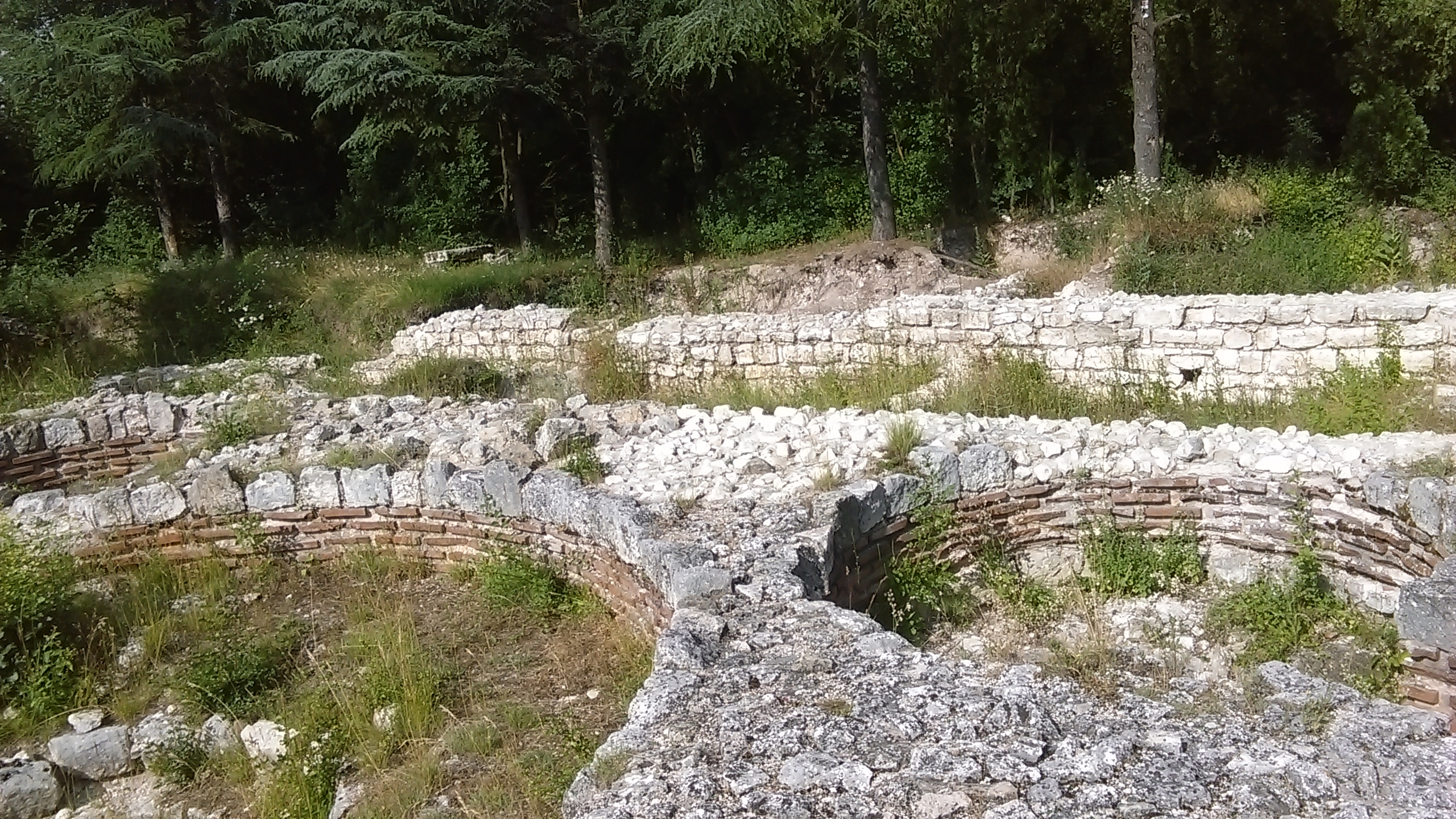 Early christian basilica ruins near Varna